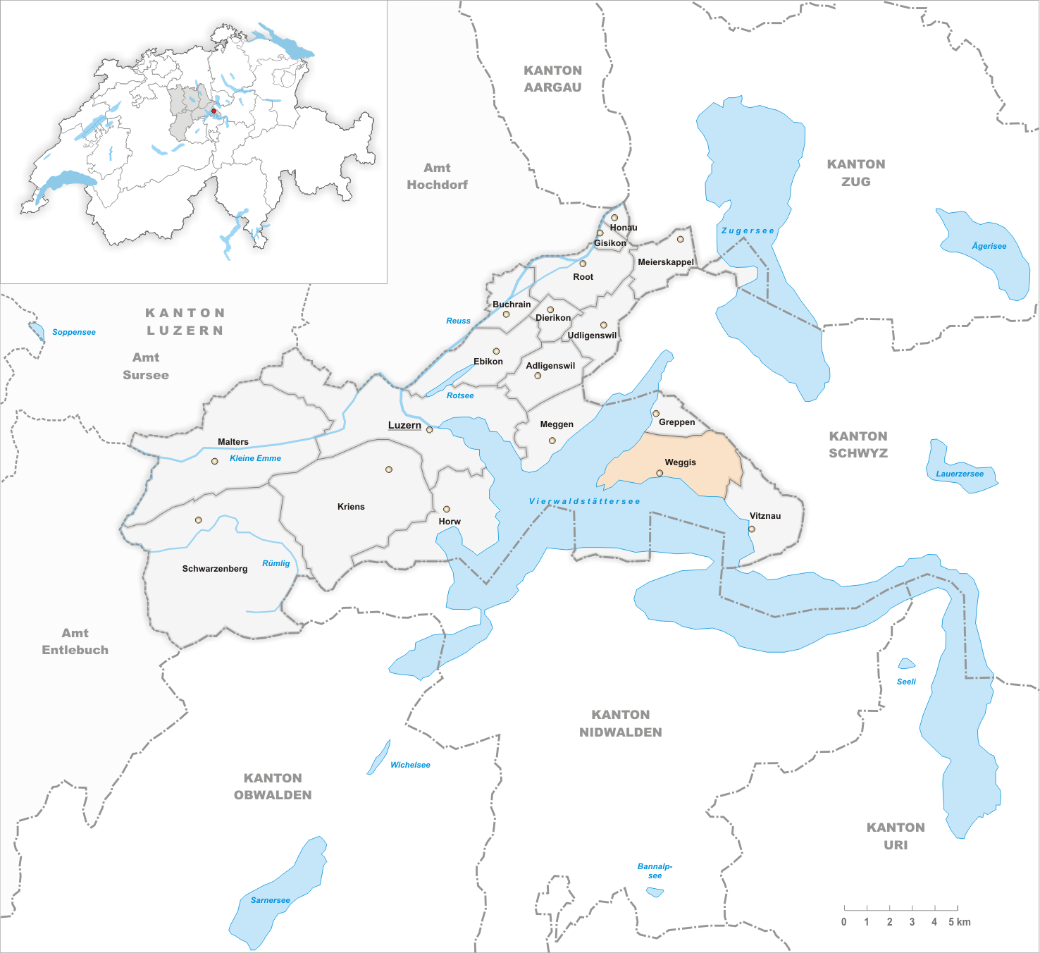 Municipality Weggis